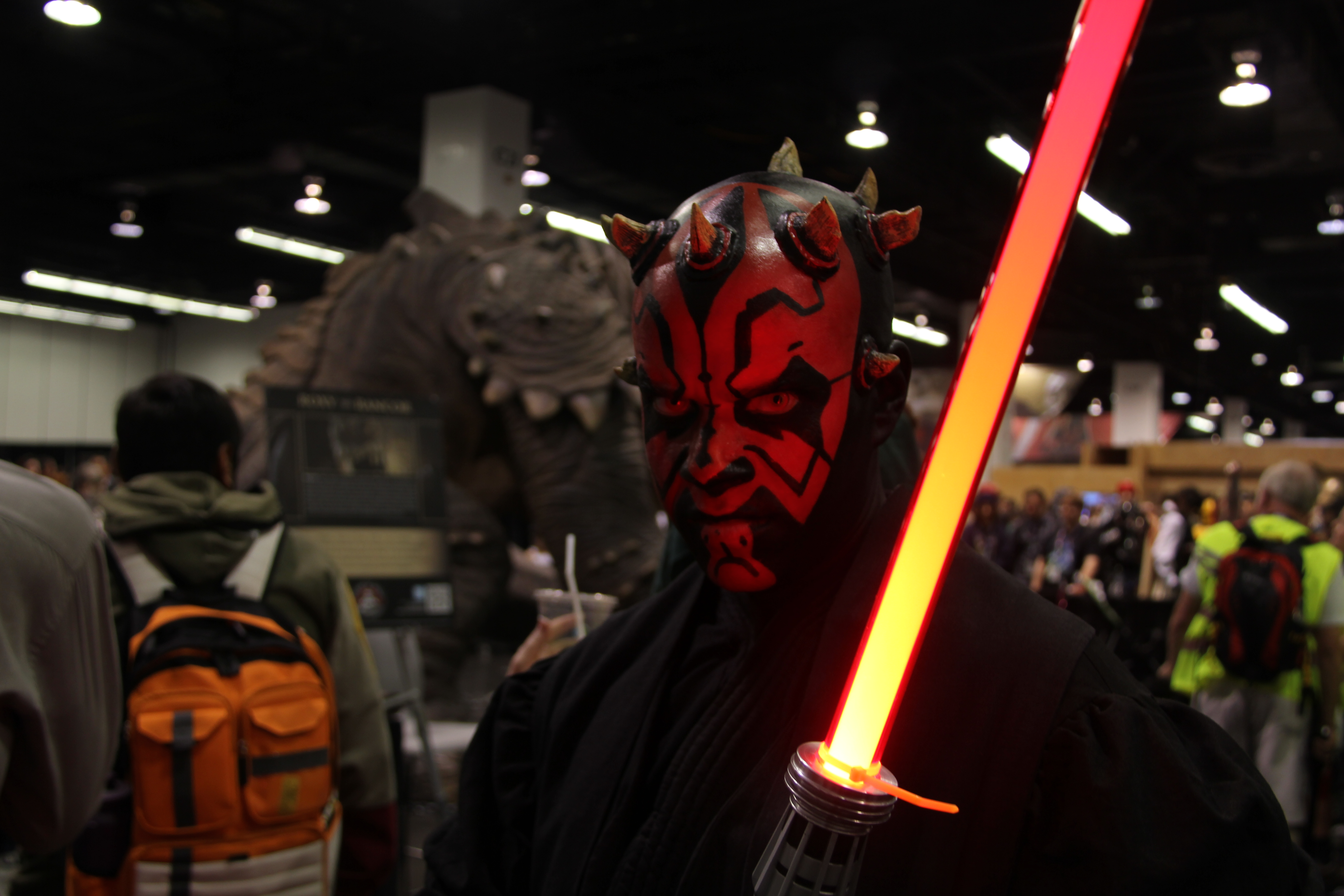 SWCA - Darth Maul Star Wars Celebration in Anaheim, April 2015.